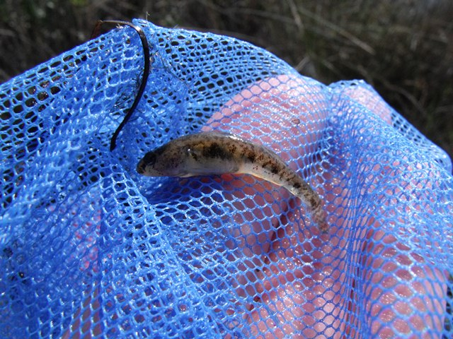 Knipowitschia panizzae collected in a brackish pond in Grosseto Province (Tuscany, central Italy). Released after photo.